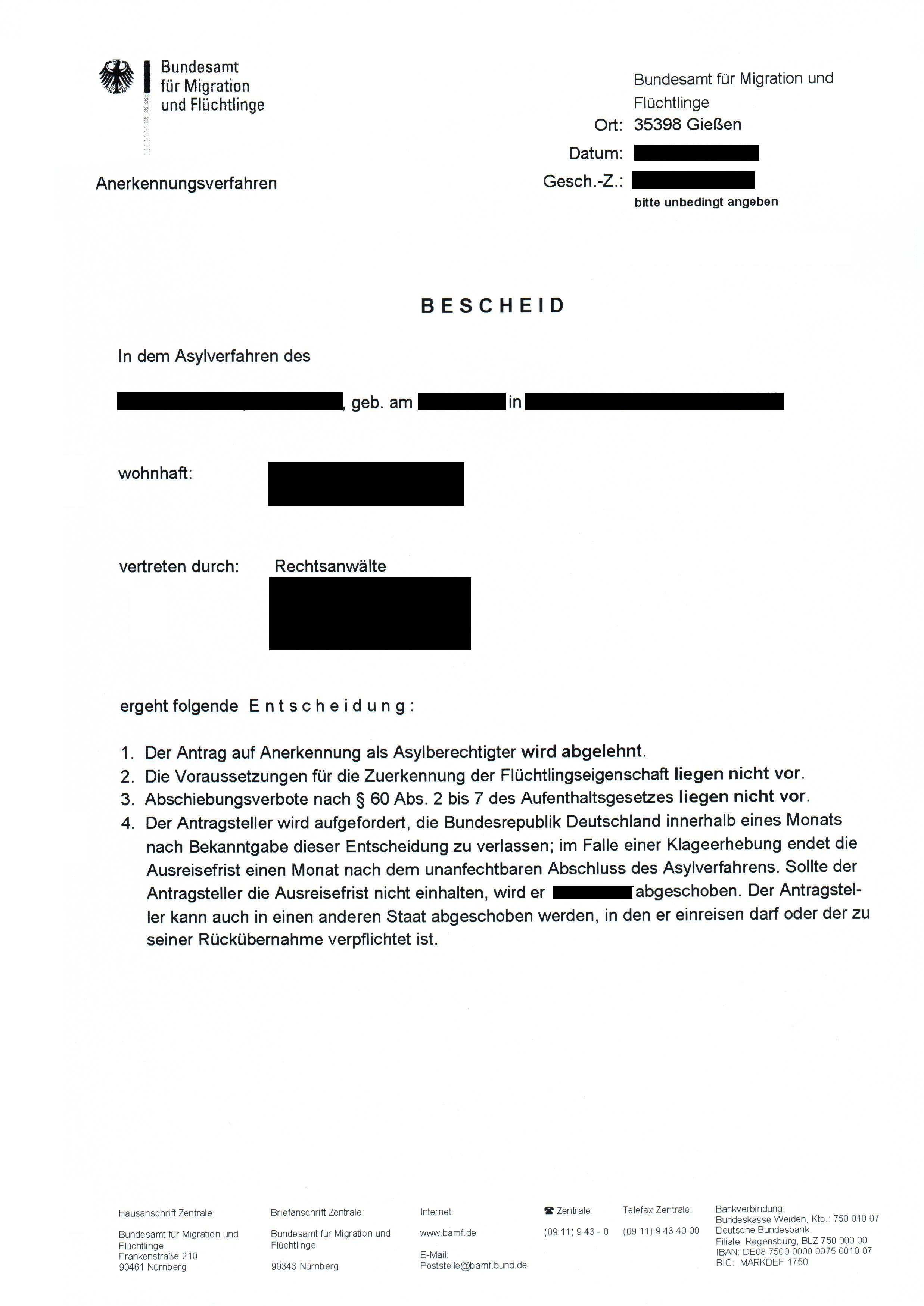 Negative decision by the Federal Office for Migration and Refugees (“Bundesamt für Migration und Flüchtlinge”, BAMF, Germany) against an asylum seeker. Personal information removed.